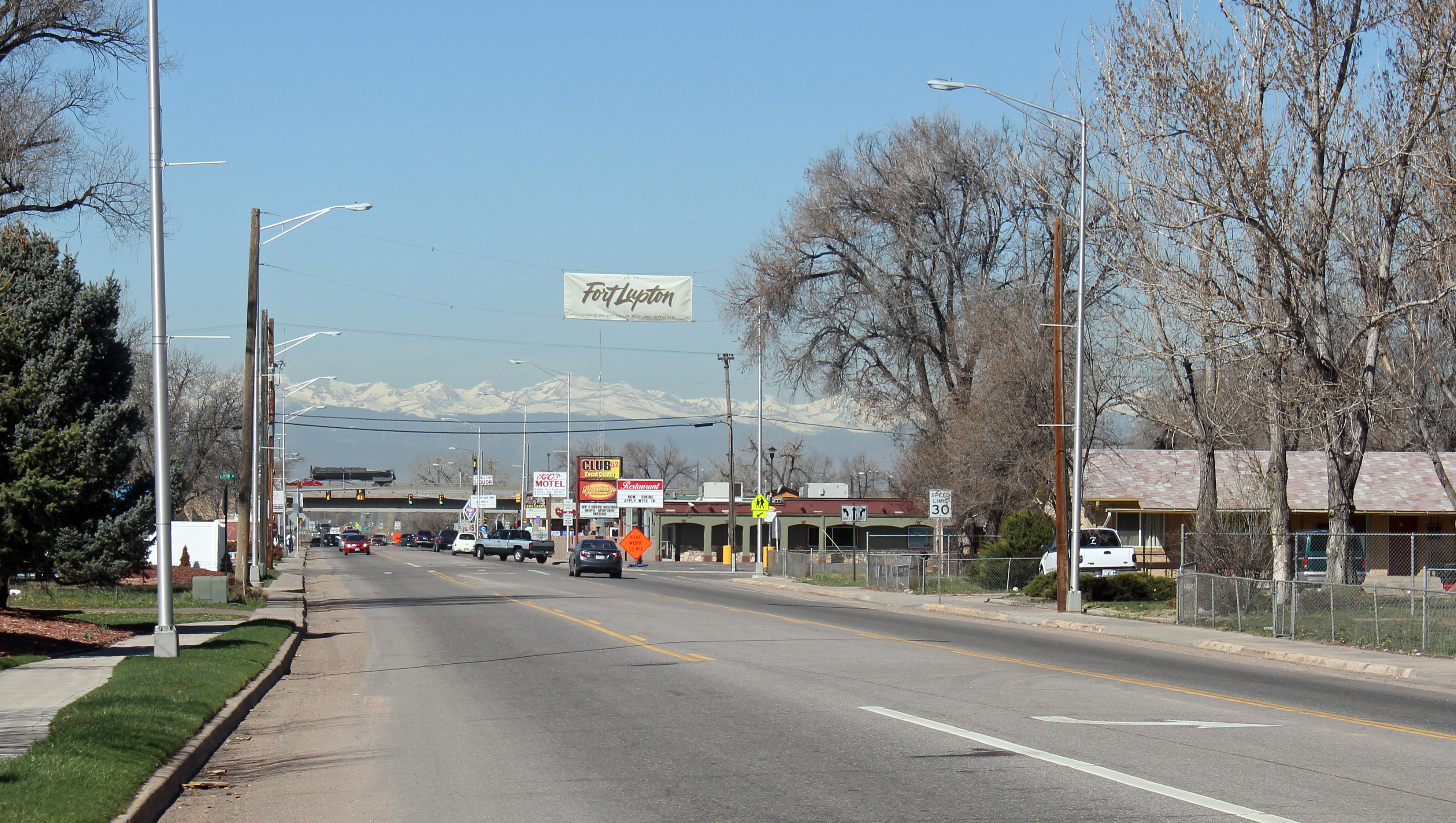 A view of Fort Lupton, Colorado. The view is looking towards the west on 1st Street, which is also Colorado State Highway 52. The freeway bridge in the background is U.S. Route 85.